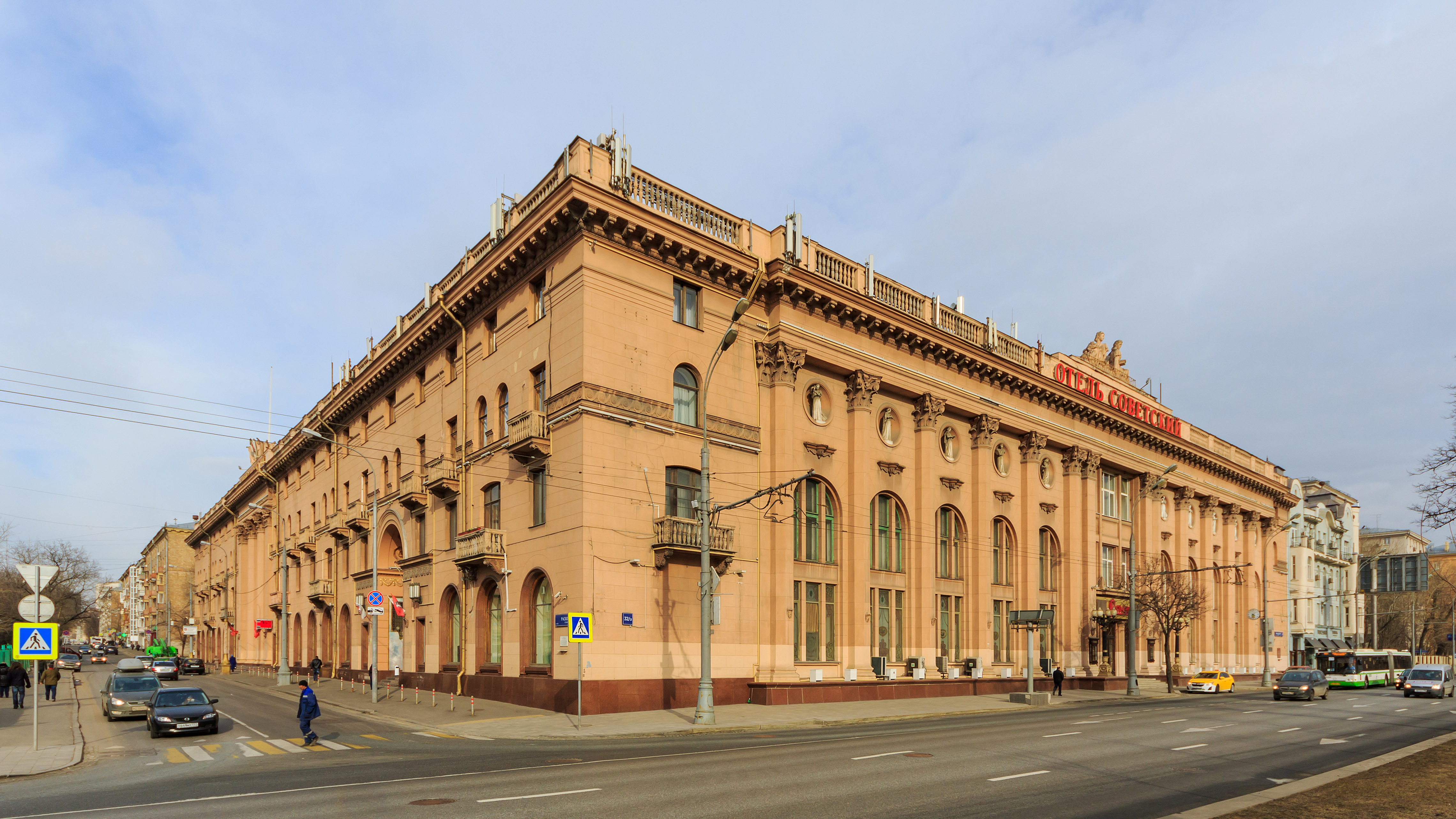 Building of Hotel Sovetsky and Romen Theatre. Moscow, Russia.